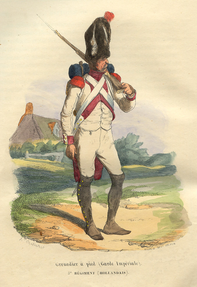 French grenadier from Holland Guard of Napoleon's troops. From book ofP.-M. Laurent de L`Ardeche «Histoire de Napoleon», 1843